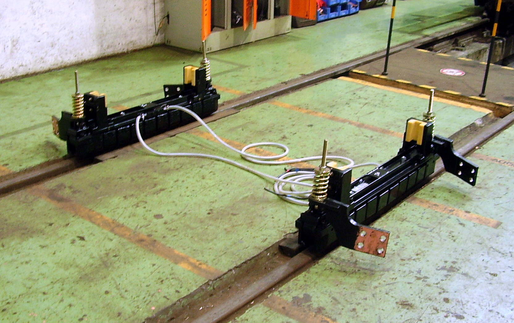 Track brake, uninstalled, of a Siemens Desiro Classic DMU